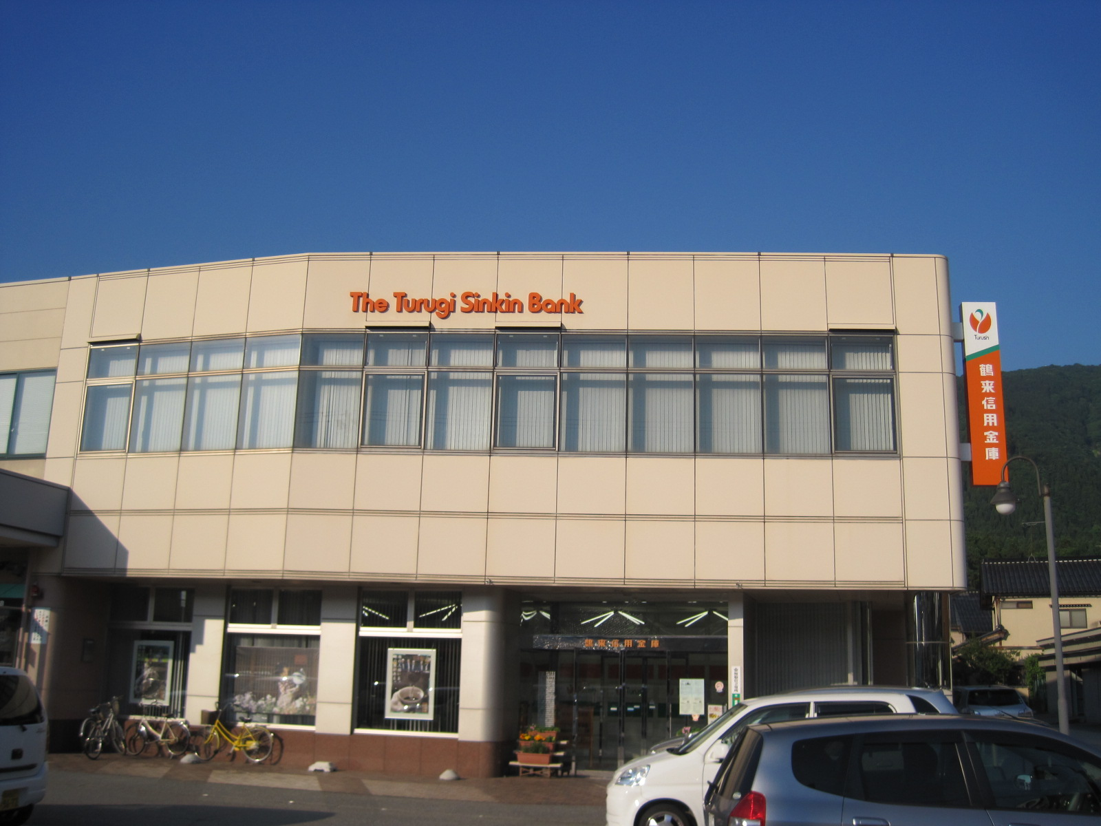 Tsurugi Shinkin Bank Headquarter